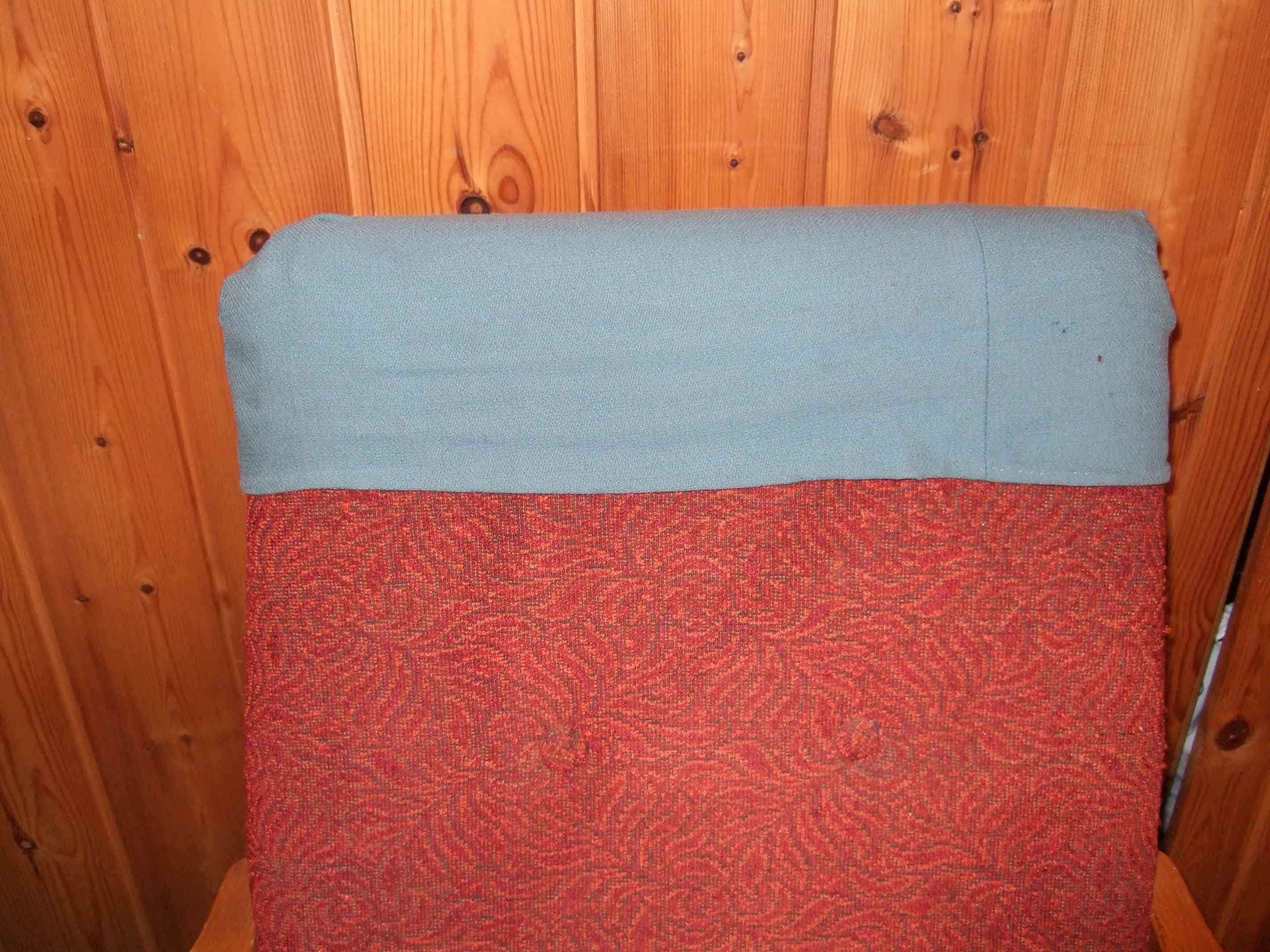 Old "anti-makkasar" - Own photo